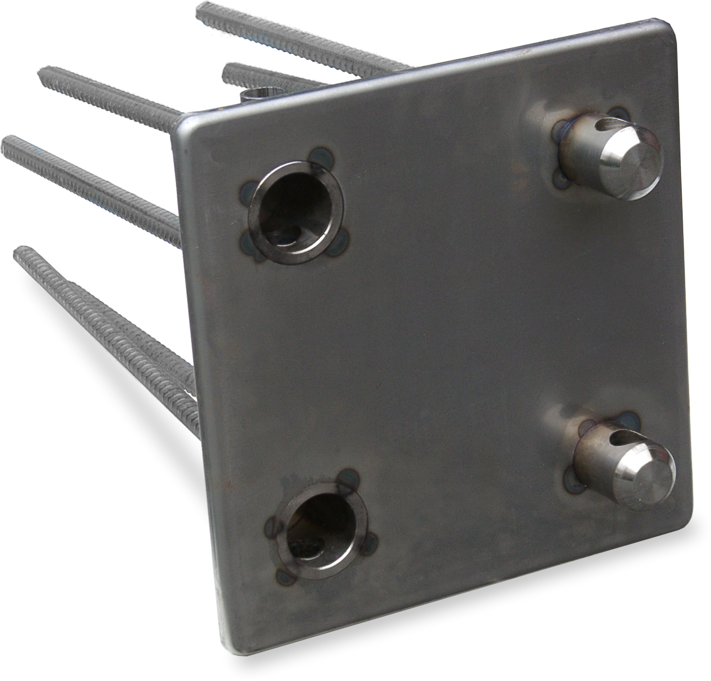 One side of an Emeca 3-Minute Pile Splice before it is cast into a concrete pile.